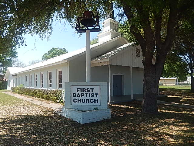 I took photo with Nikon camera of First Baptist Church in Quemado, TX.